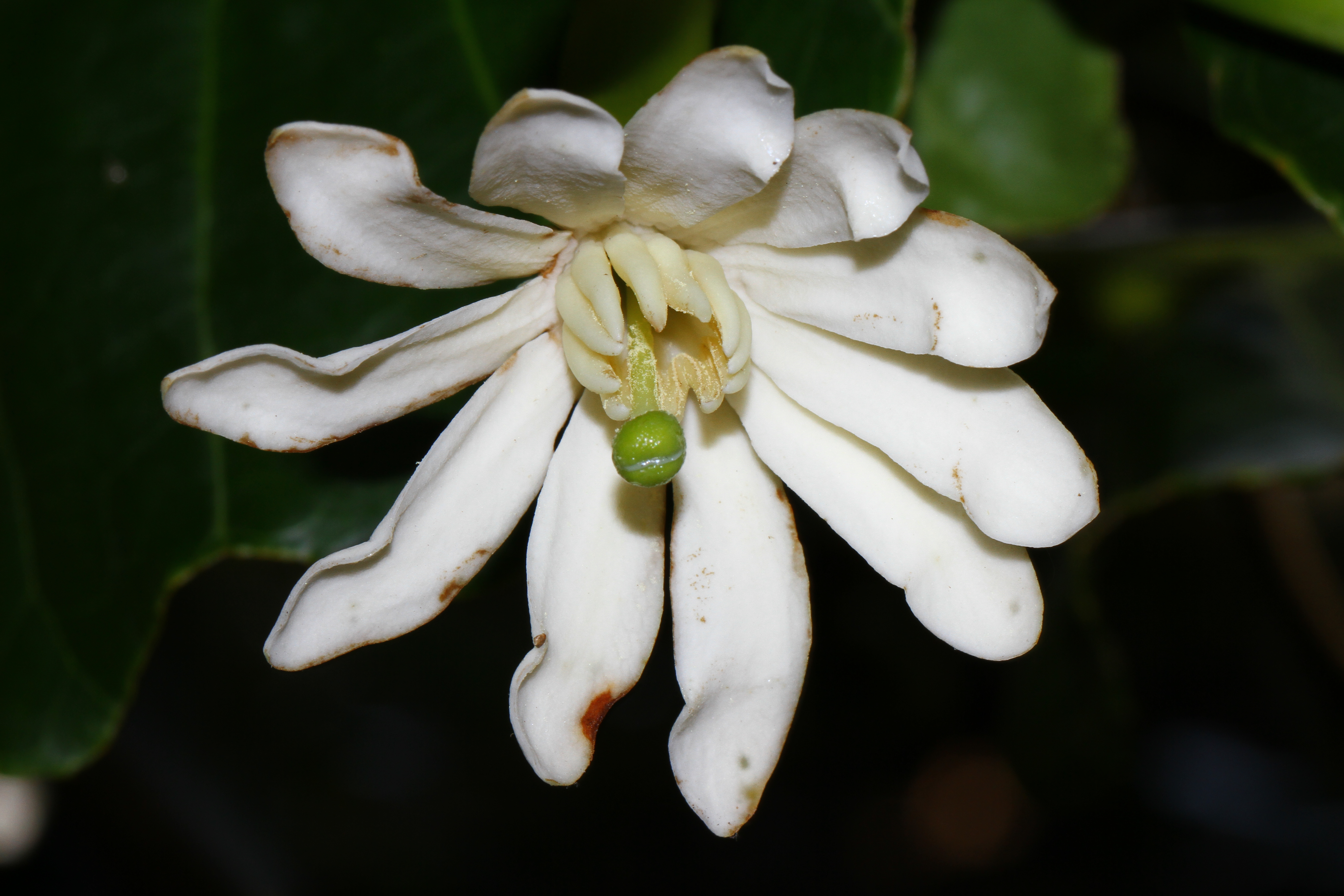 Anthocleista grandiflora, closeup of flower